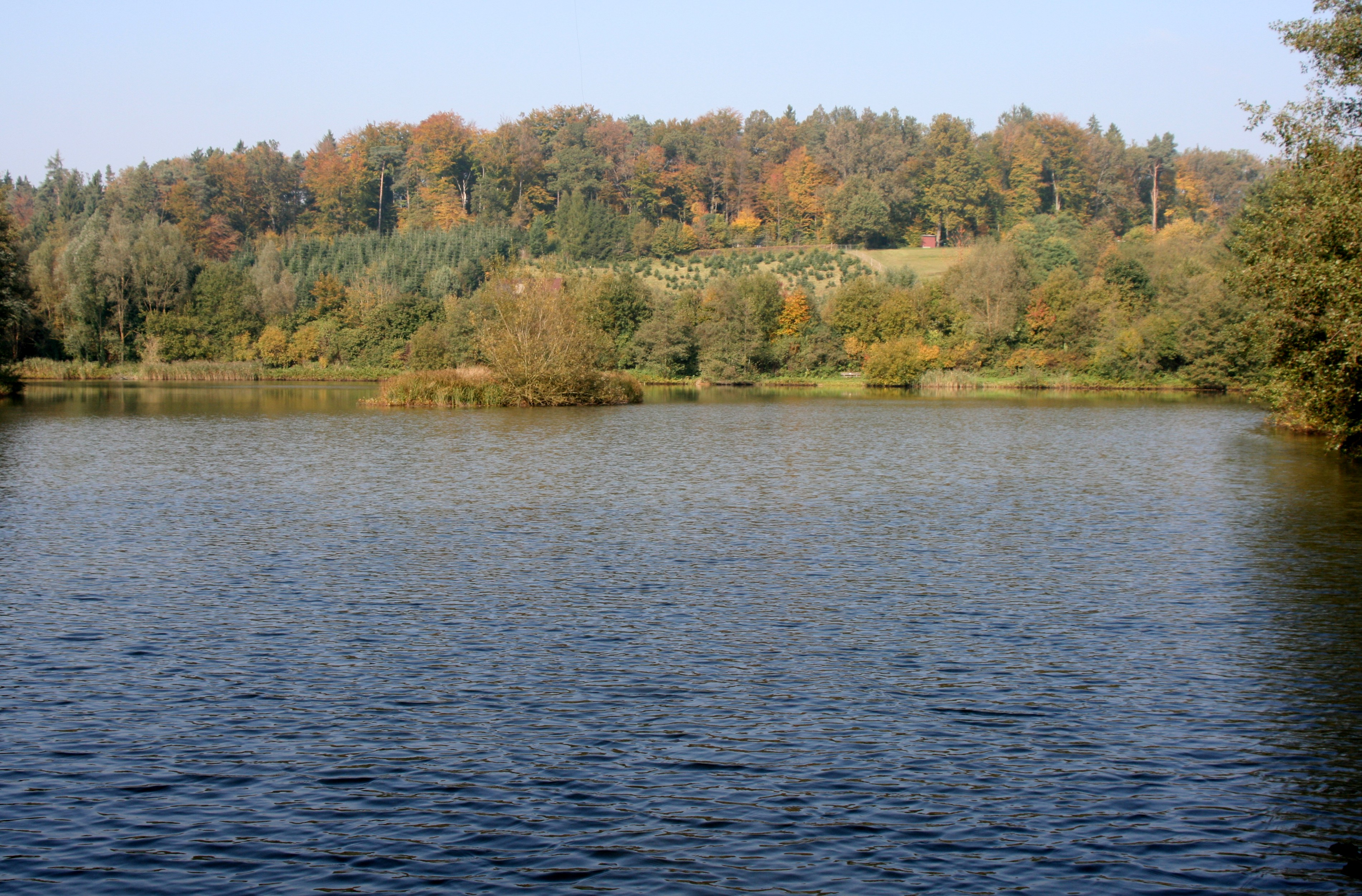 Mill lake in Wüstenrot-Finsterrot from the South